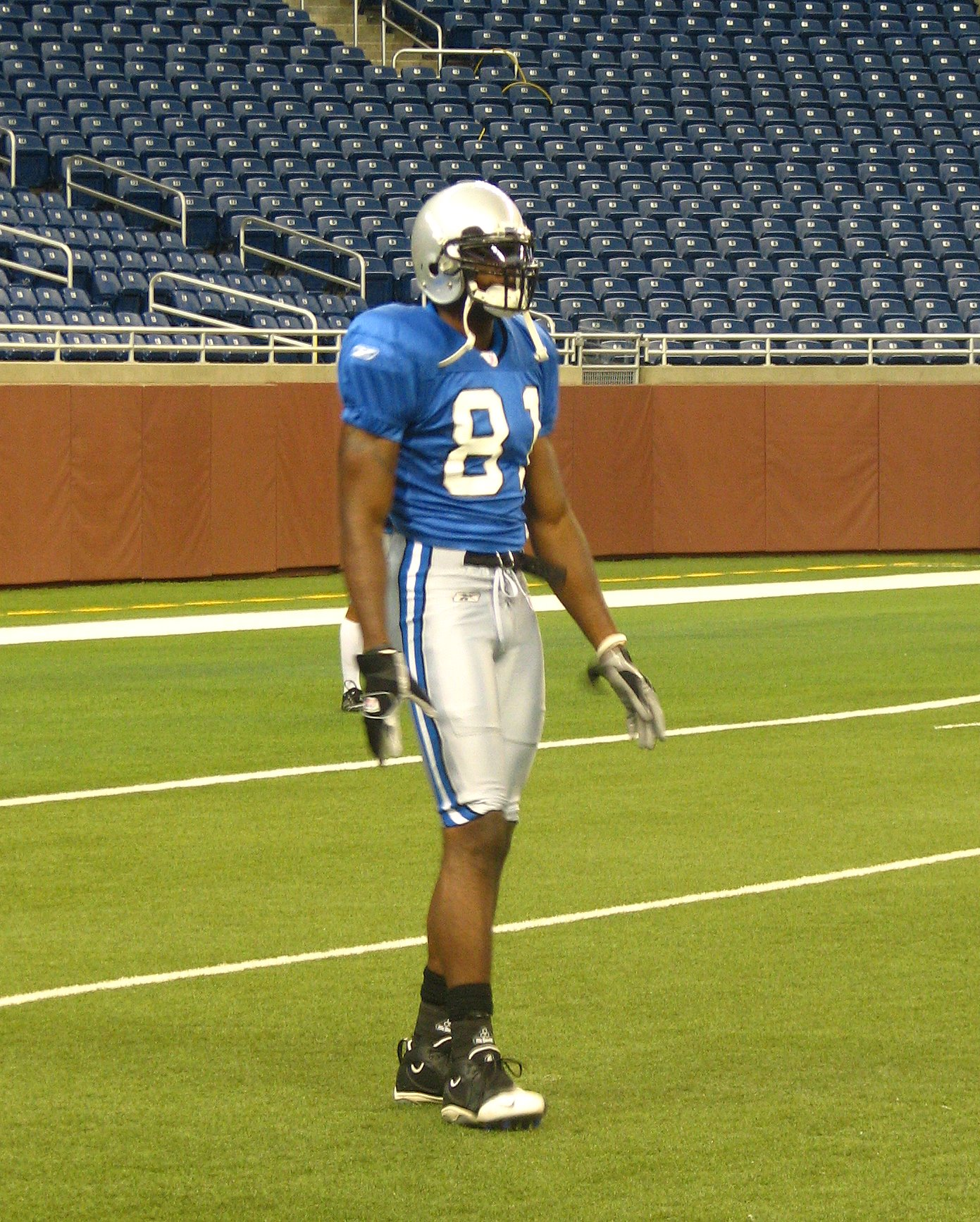 picked Calvin Johnson as one of the 50 NFL players likely to make the Hall of Fame. He hasn't even played a game yet.